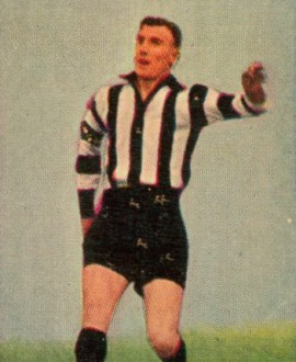 Photo of Lou Riley in 1935